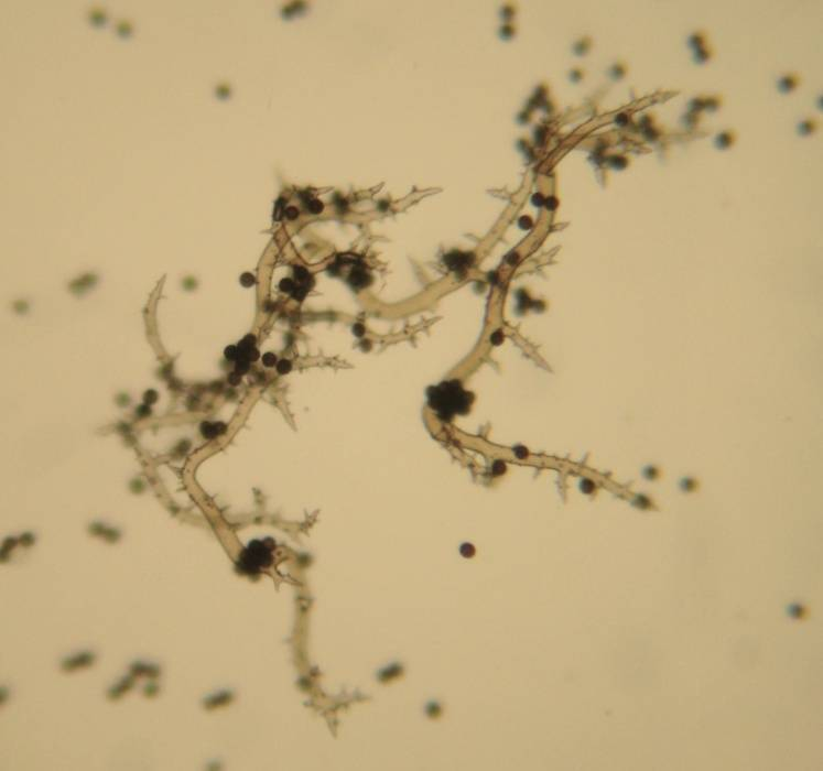 The characteristic spiny capillitia from the gleba of the puffball species Mycenastrum corium (Guers.) Desv.